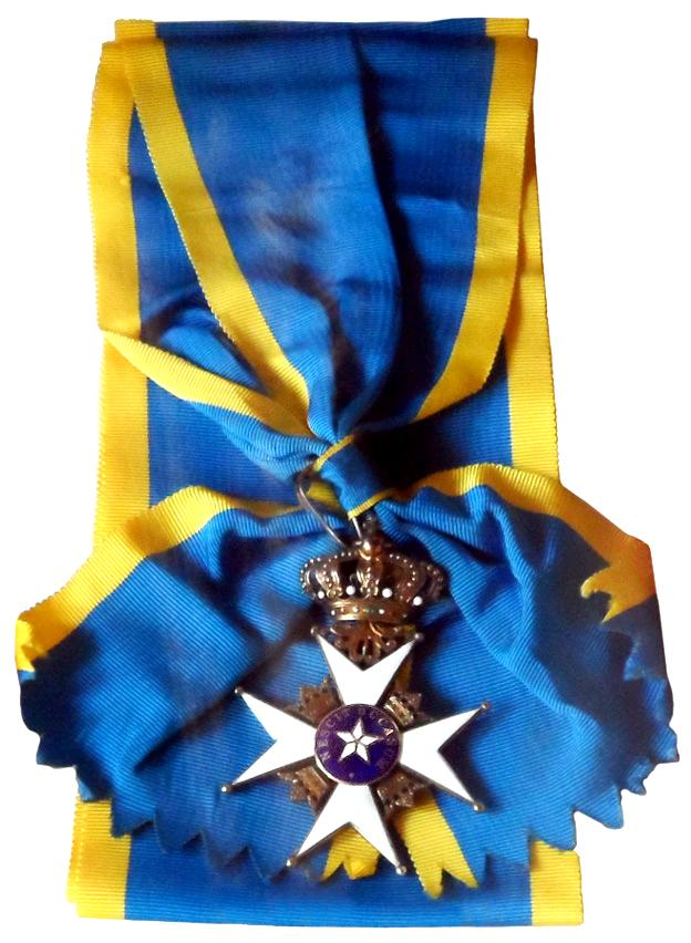 Star and riband of a Commander Grand Cross of the Order of the Polar Star (Sweden).